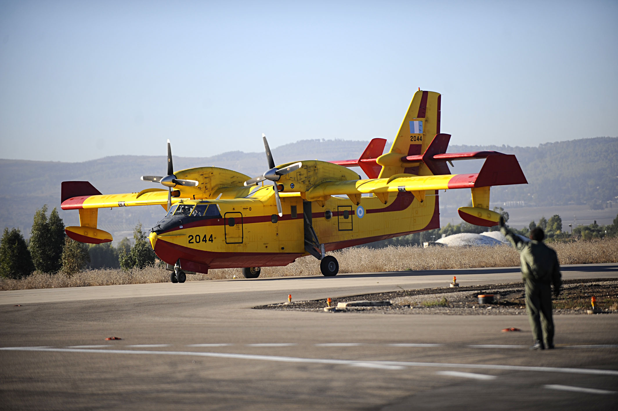 December 3, 2010. Throughout the day, European support troops landed in Israeli Air Force bases in order to assist the ongoing efforts in the Carmel disaster area. Pictured: Greek planes landing at the Ramat David Air Force Base.